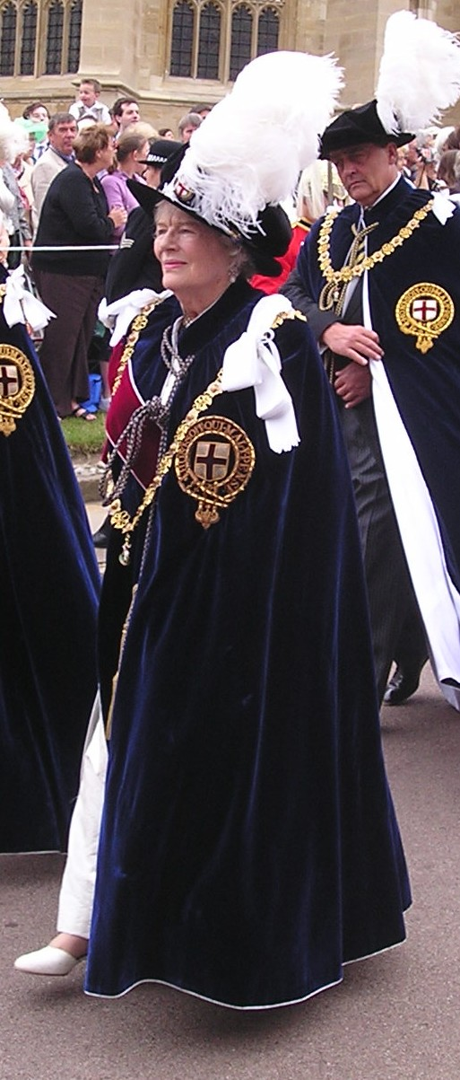 Lady Soames wearing her robes as a Lady Companion of the Order of the Garter, in procession to St George's Chapel, Windsor Castle for the annual service of the Order of the Garter.